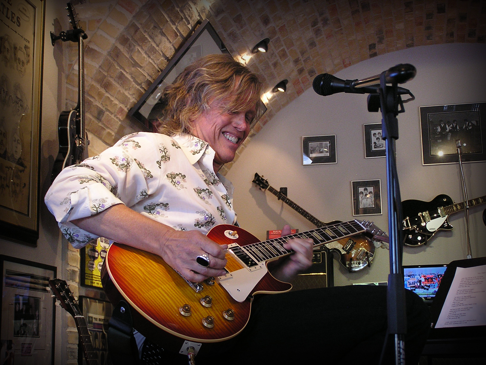 Brian Ray, Paul McCartney's guitarist, rocking his song "Vinyl" from his first solo lp Mondo Magneto at the Redbone Guitar Boutique Summer Clinic Series. Truly an awesome song and a rocking CD from one hell of a nice and down to earth guy!